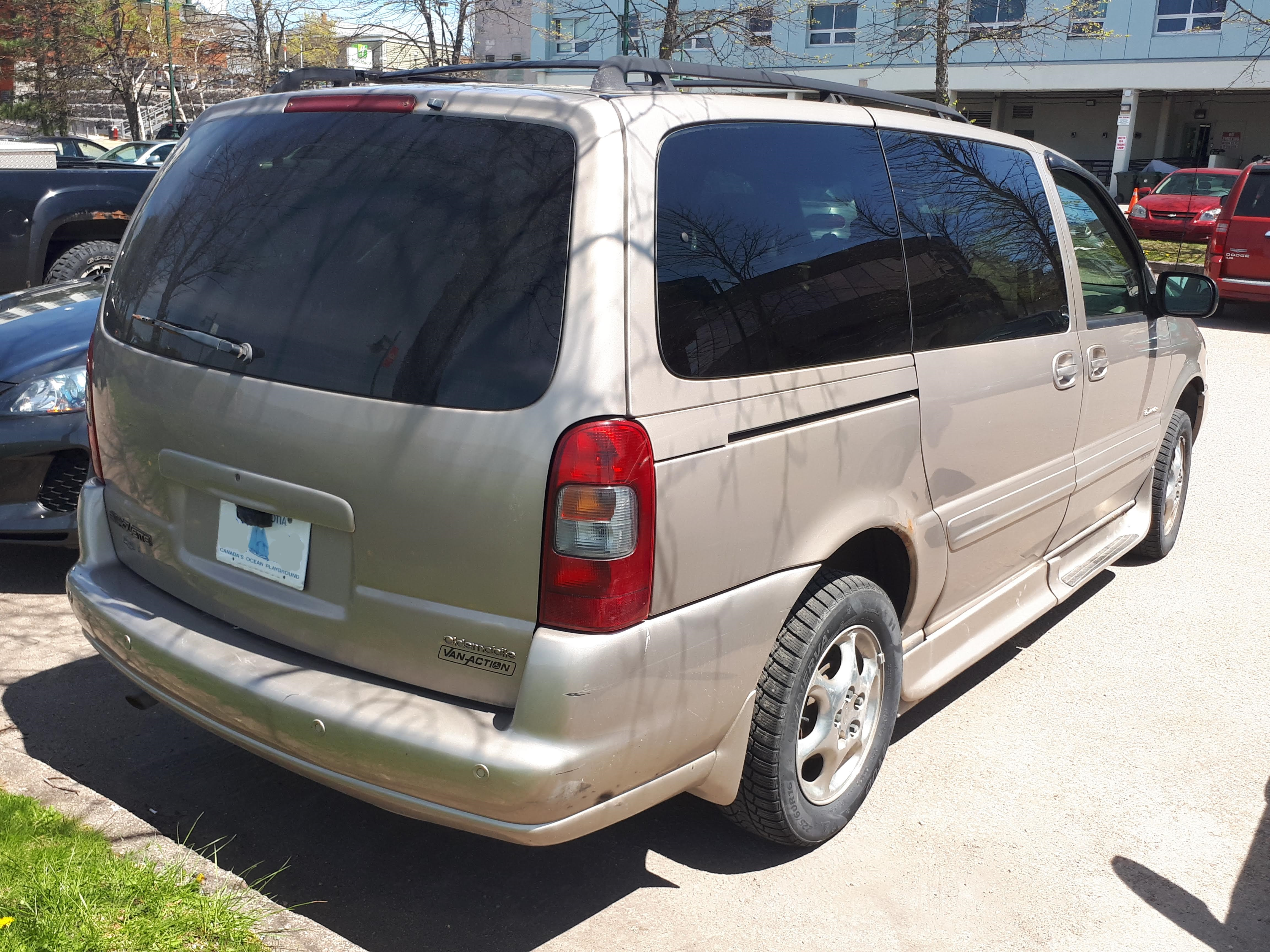 Olds. Silhouette